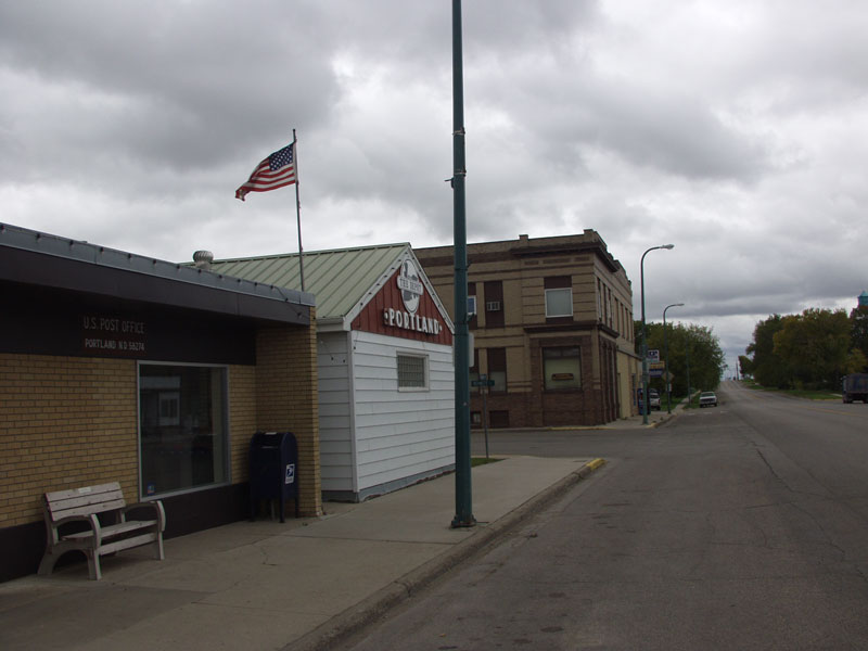 Portland, North Dakota. From .